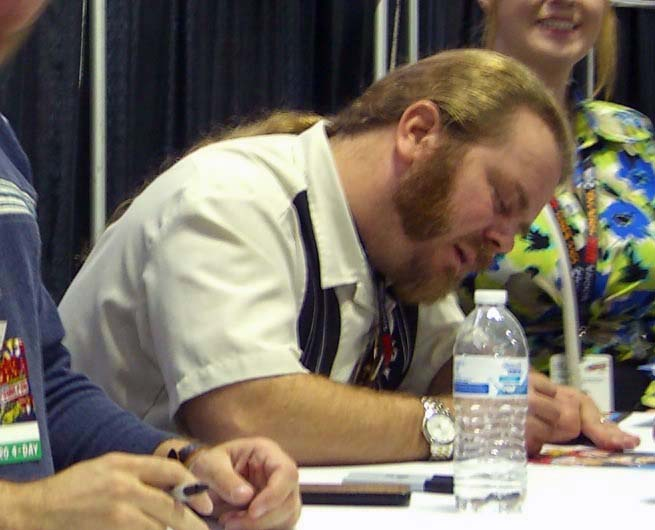 Voice actor Justin Cook signing autographs alongside costars from the TV series Dragonball Z (not pictured), at the New York Comic Con, October 15, 2011. This photo was created by Luigi Novi. It is not in the public domain, and use of this file outside of the licensing terms is a copyright violation.